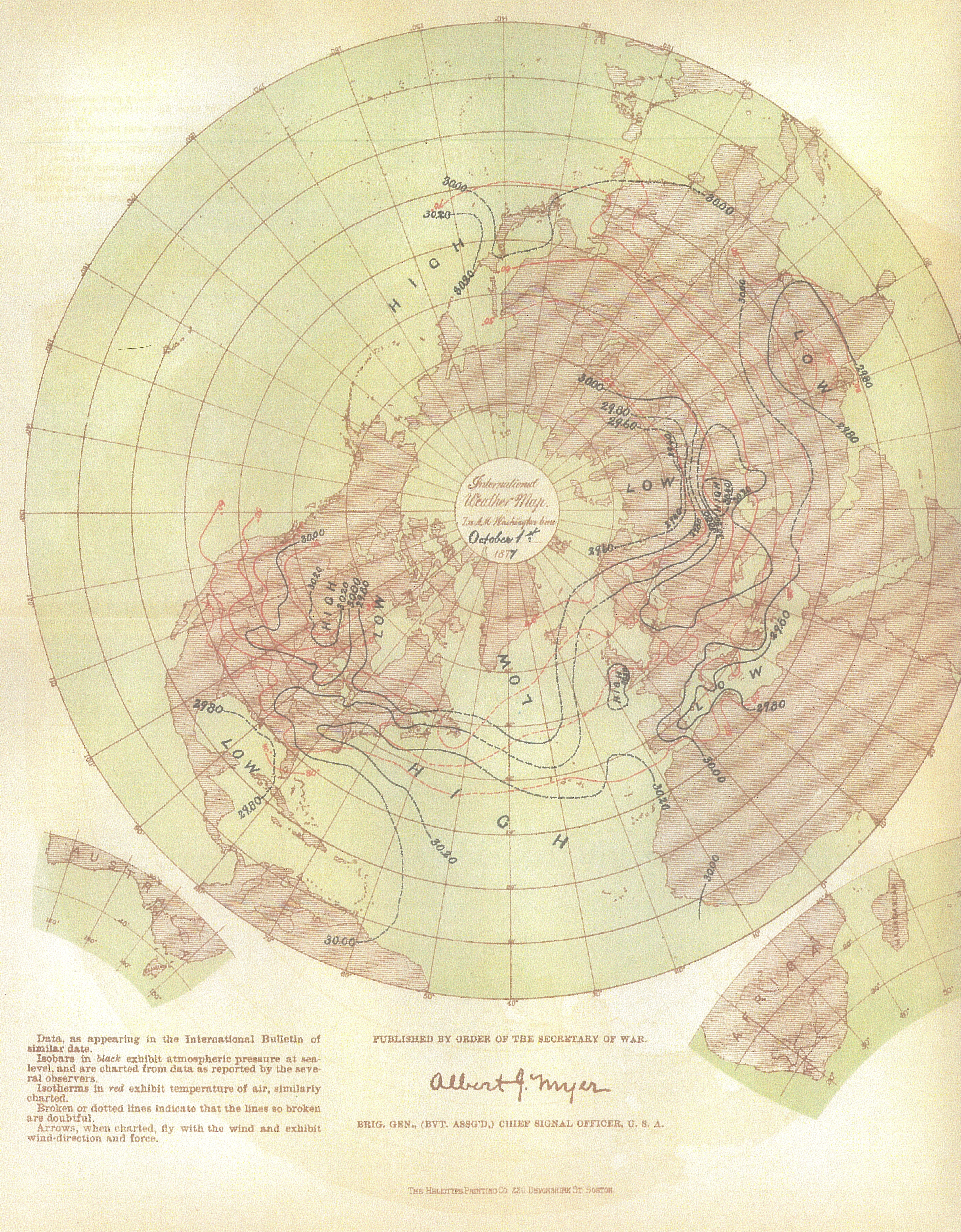 World Weather Map OCT 1877 - ARCSO Signal Corps Museum, Fort Gordon/GA